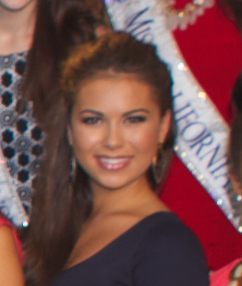 09022014 - Miss America Contestants 2014 at DoED 101